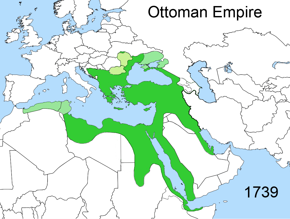 Territorial changes of the Ottoman Empire